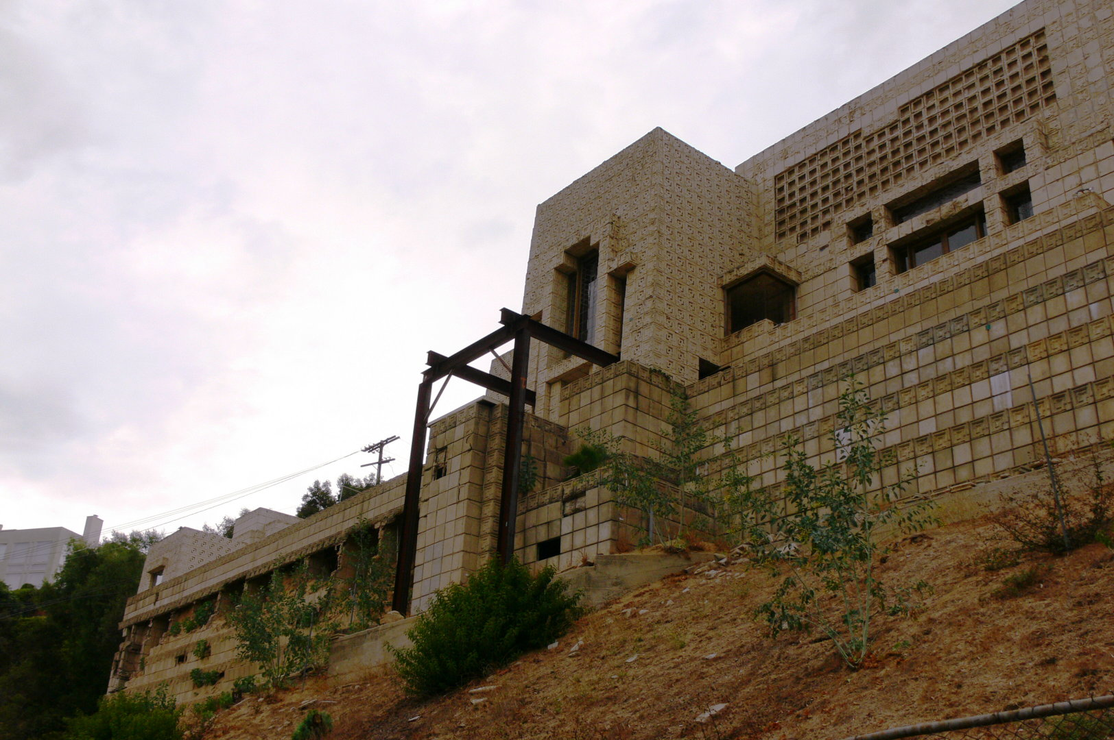 Back side of the Ennis House at 2655 Glendower Avenue in Los Feliz, Los Angeles, California. The house was designed in 1923 by Frank Lloyd Wright for Charles and Mabel Ennis, and built in 1924. The deteriorating retaining wall and a crumbling fascia on the upper parts of the building are visible in this view.